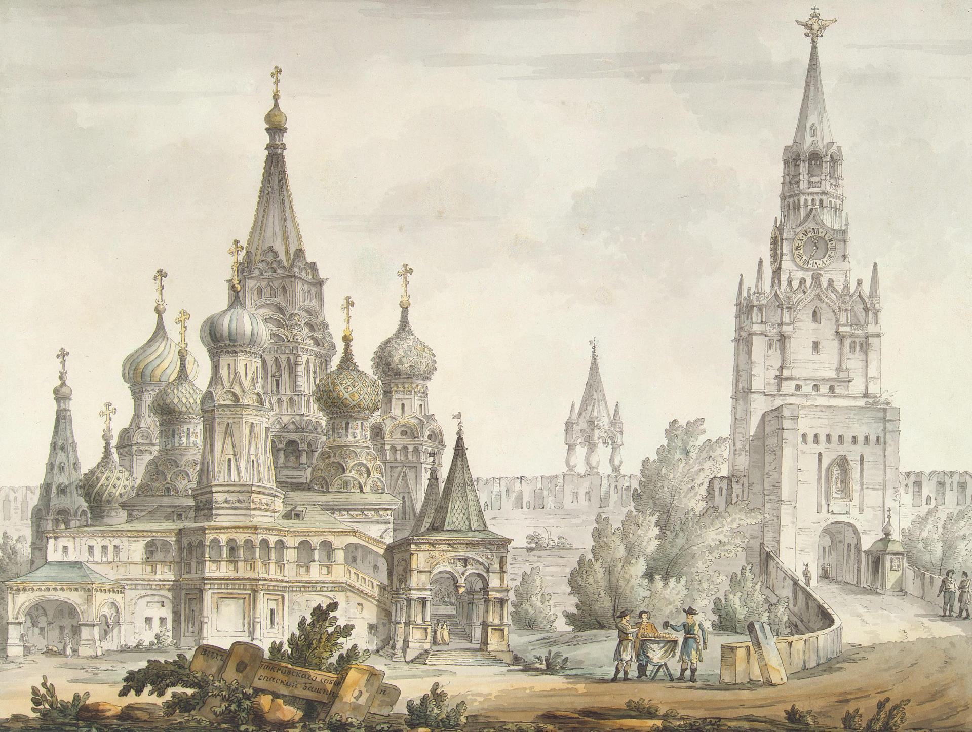 Giacomo Quarenghi. Pokrovsky Cathedral and the Spasskaya Tower in Moscow. 1797. Drawings, Pen, brush, Indian ink and watercolour, 43.5x57 cm. The Series Views of Moscow and its Environs. State Hermitage, Source of entry: acquired from K. Saunders, 1857